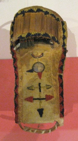 White Mountain Apache doll and cradleboard, 1900, collection of the Heard Museum. Constructed from mesquite wood, hide, commercial cloth, glass beads, tin, thread, porcelain, yarn.